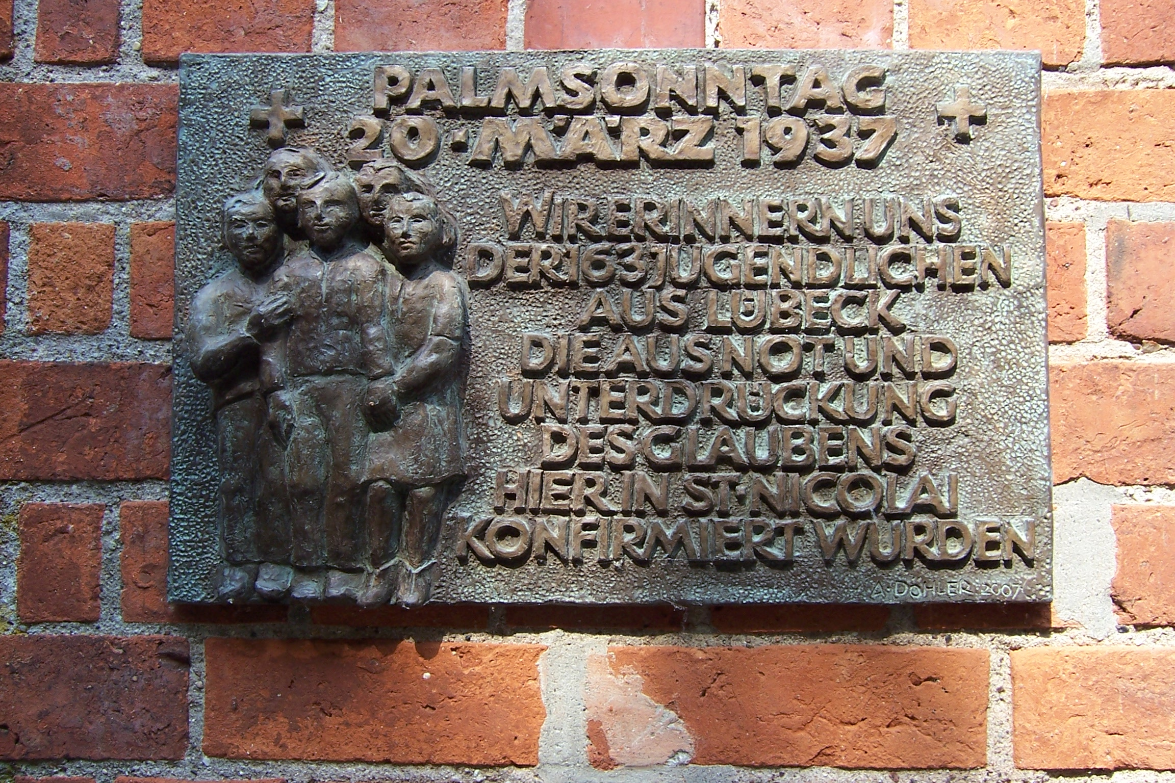 Plaque, sculpted in 2007 by sculptor Axel Döhler, commemorating the Möllner Notkonfirmation for teenagers from Lübeck confessing church congregations in 1937 on south-west corner of St. Nicolai church in Mölln